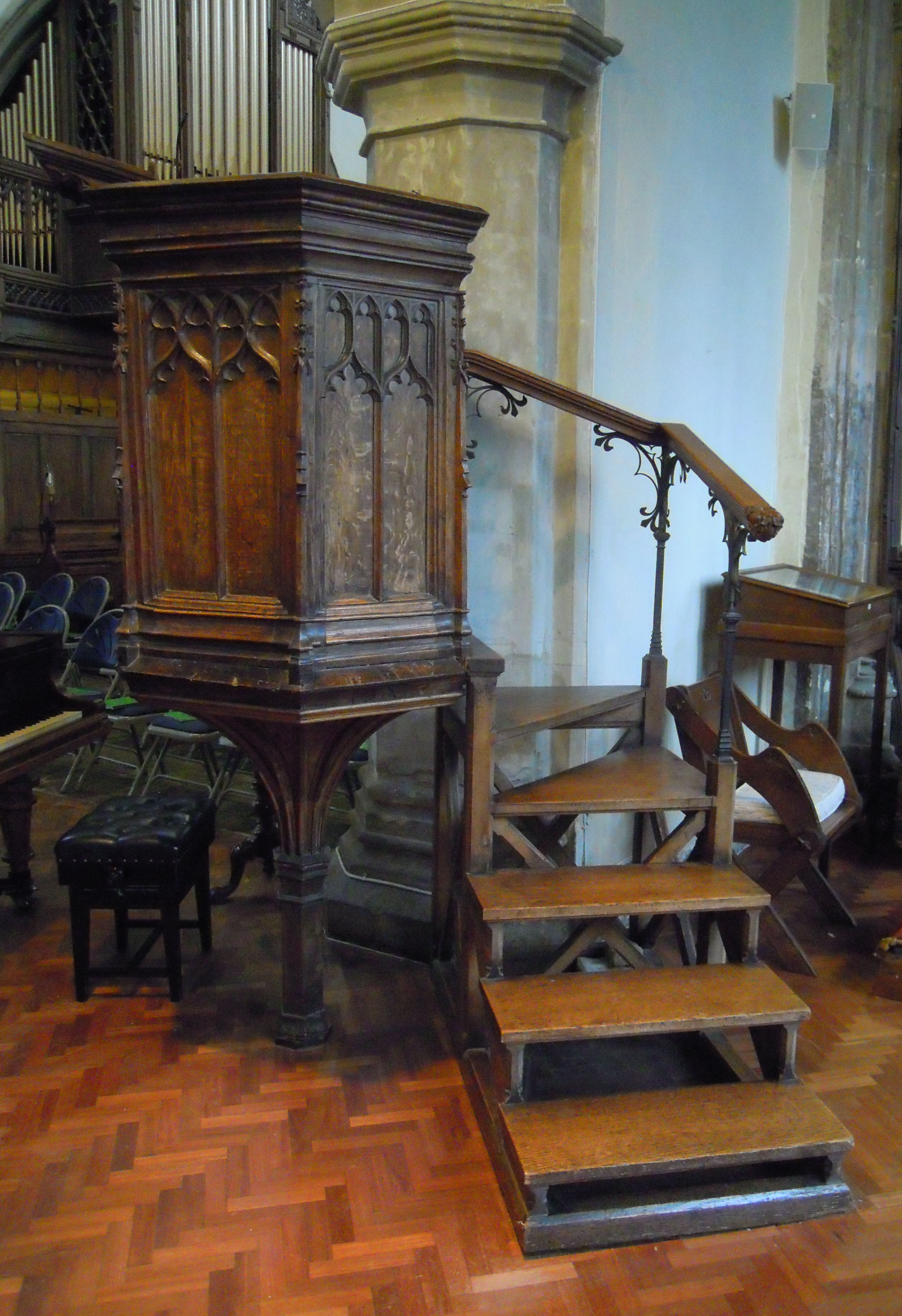 The pulpit of St Mary's Church in Hitchin